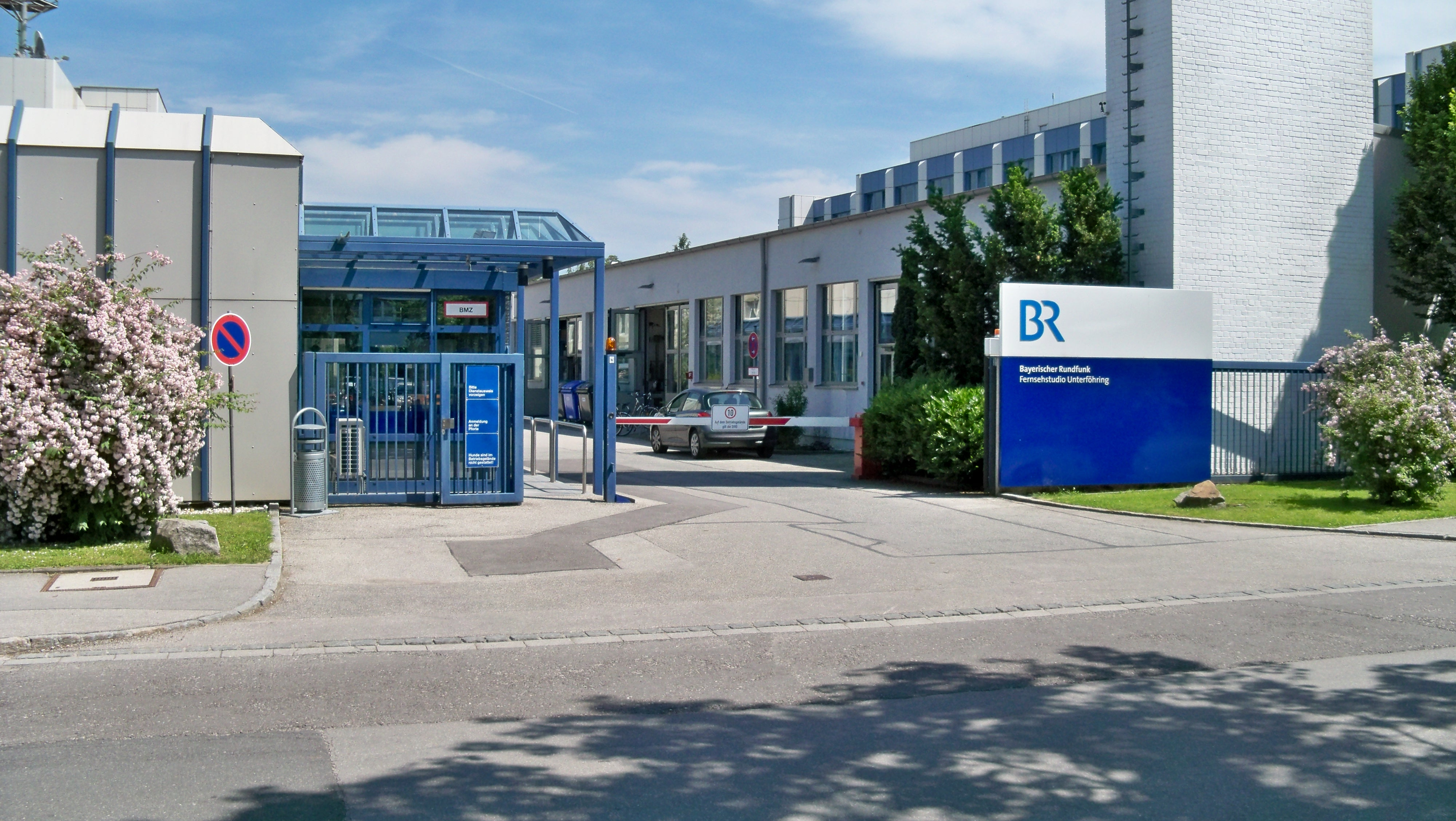 Bayerischer Rundfunk Fernsehstudio Unterföhring, Germany (Entrance).